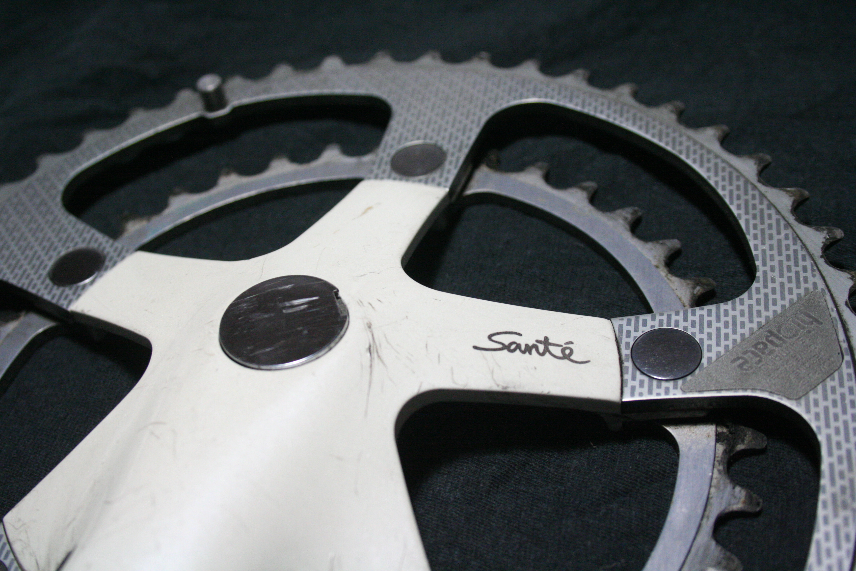 Shimano Santé Crank Set